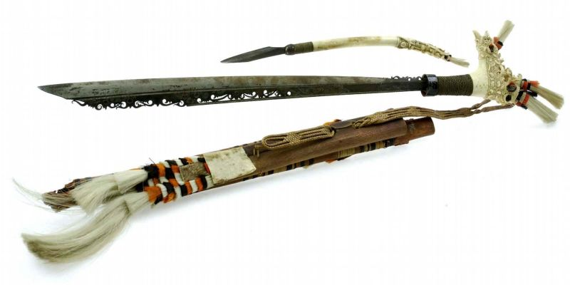 Sword with hilt of bone, sheath and small knife